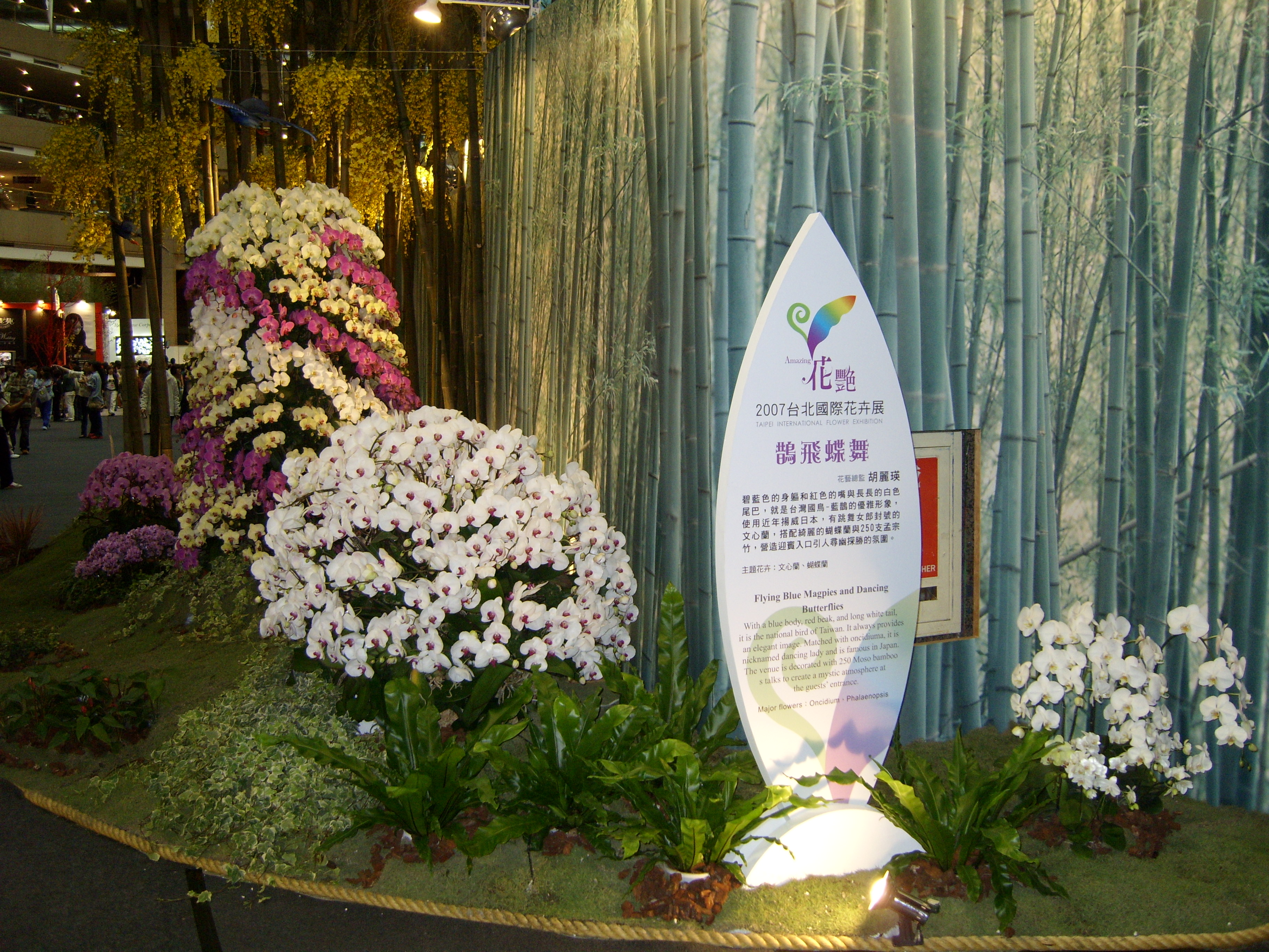 Flying Blue Magpies And Dancing Butterflies at 2007 Taipei International Flower Exhibition.中文（台灣）: 2007台北國際花卉展，主題館作品─鵲飛蝶舞。